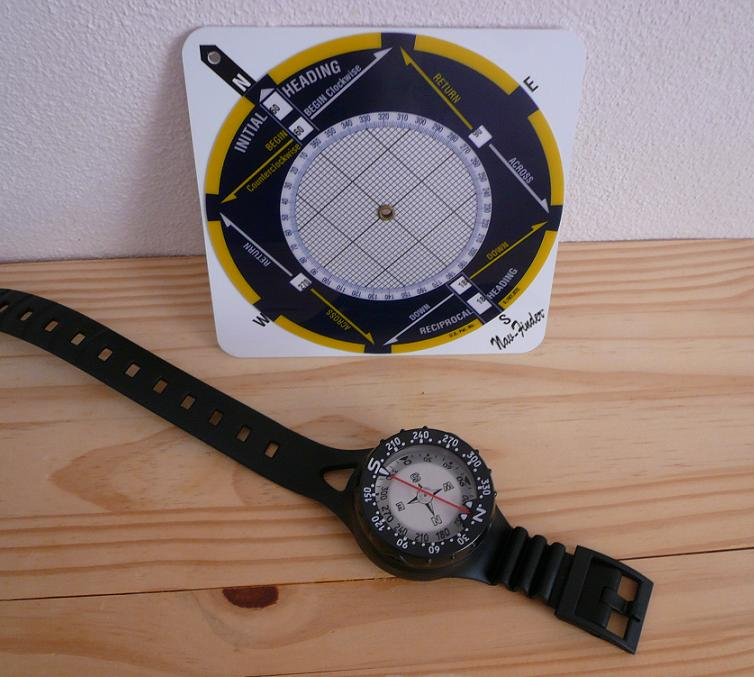 Photograph of certain underwater navigation tools